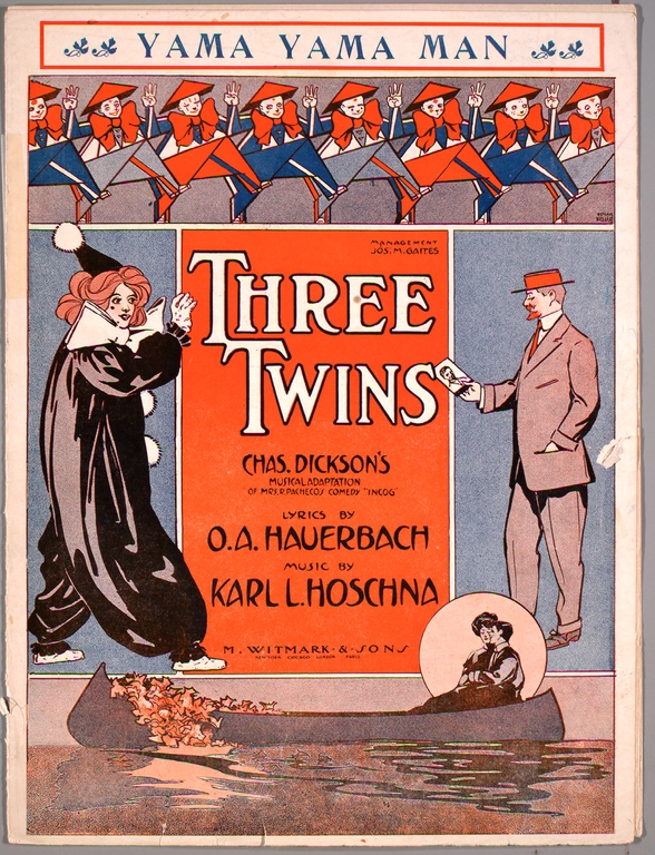 Cover at of Three Twins broadway play sheet music